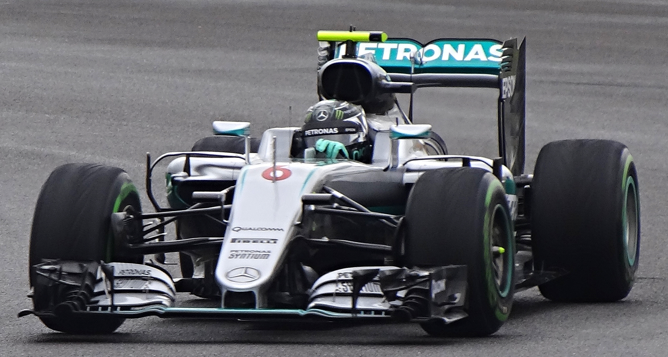 Nico Rosberg in the Mercedes W07 Hybrid, 2016 British Grand Prix